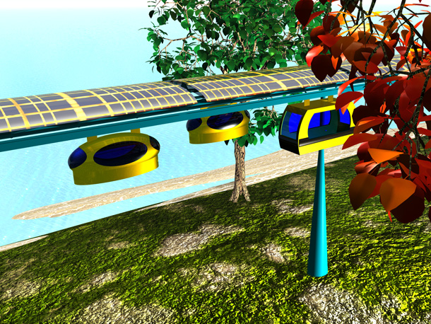 Solar Powered Transportation Network, JPods version of Personal Rapid Transit.